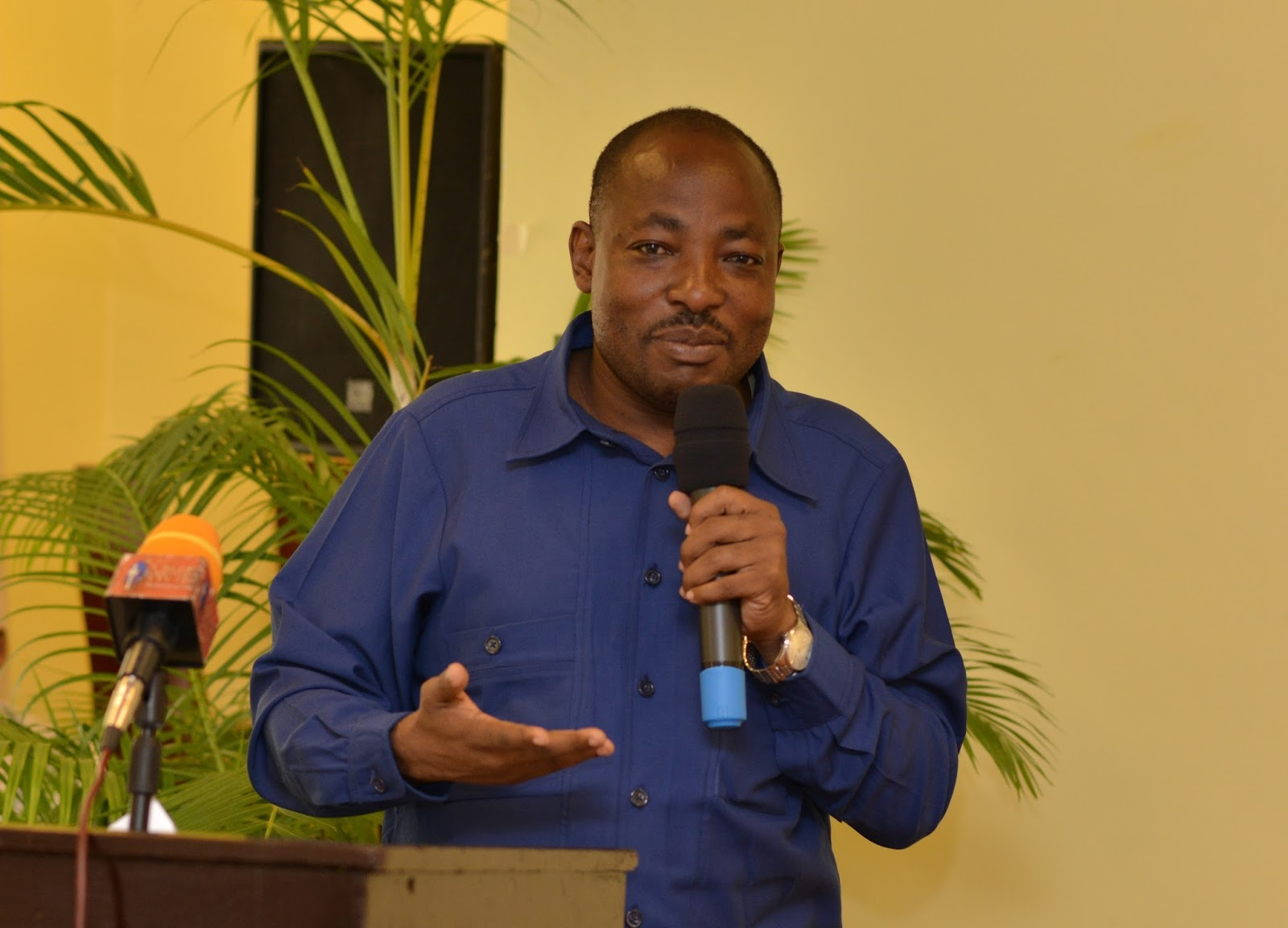 The photo was taken during the meeting of wards representatives of Dar es Salaam.